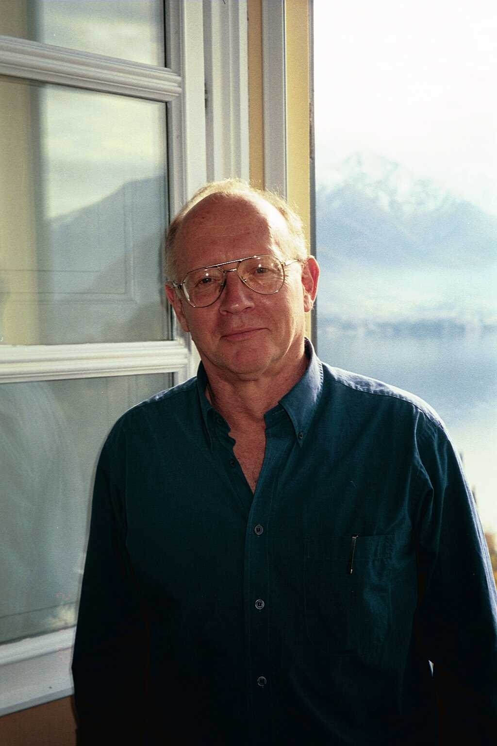 Picture of Professor Jeremy Kark